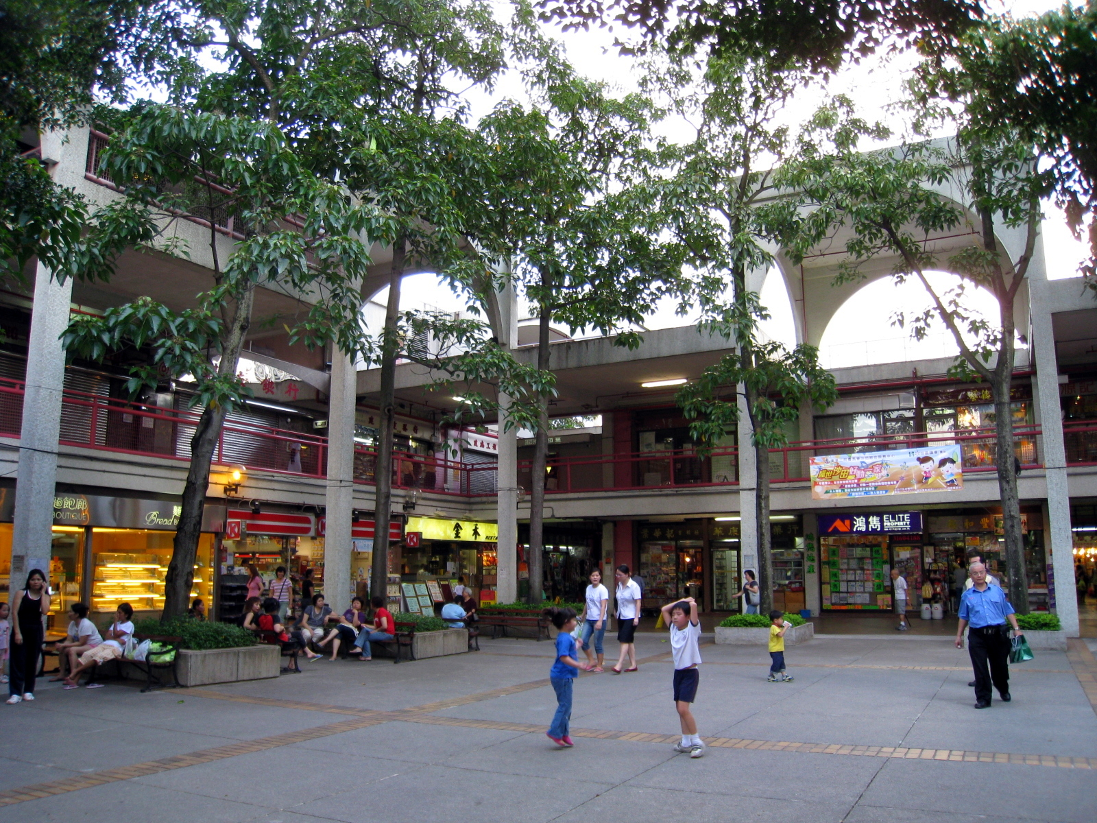 HK Sui Wo Court Shopping Arcade 穗禾苑